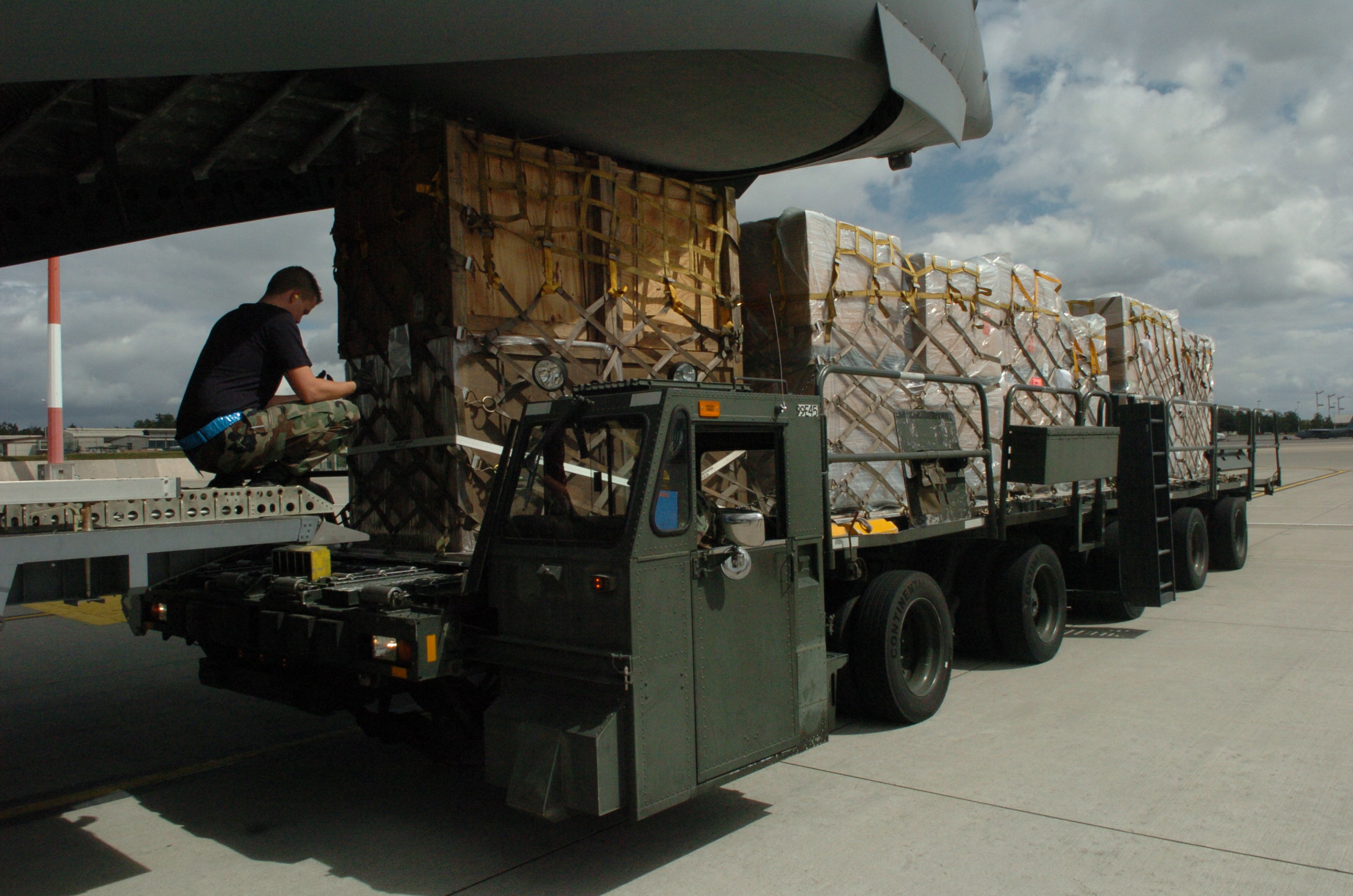 A U.S. airman from the 793rd Air Mobility Squadron moves humanitarian supplies into position for loading onto a cargo aircraft at Ramstein Air Base in Germany on August 13th, 2008. U.S. soldiers and airmen have worked 36 hours to palletize more than 75,000 pounds of emergency shelter items and medical supplies for delivery to areas in Georgia affected by the 2008 Russo-Georgian War.